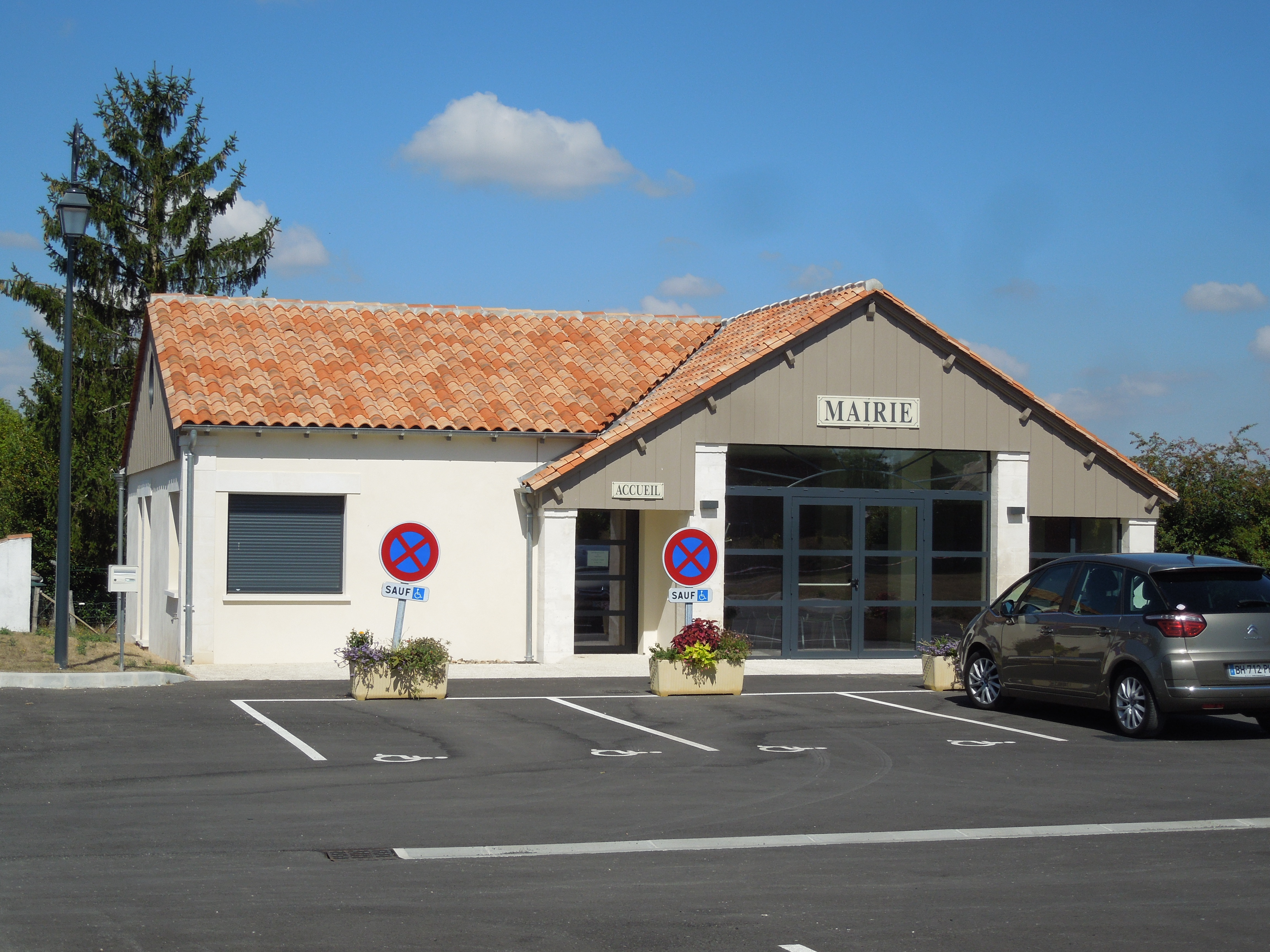 Saint-Georges-Antignac, mairie